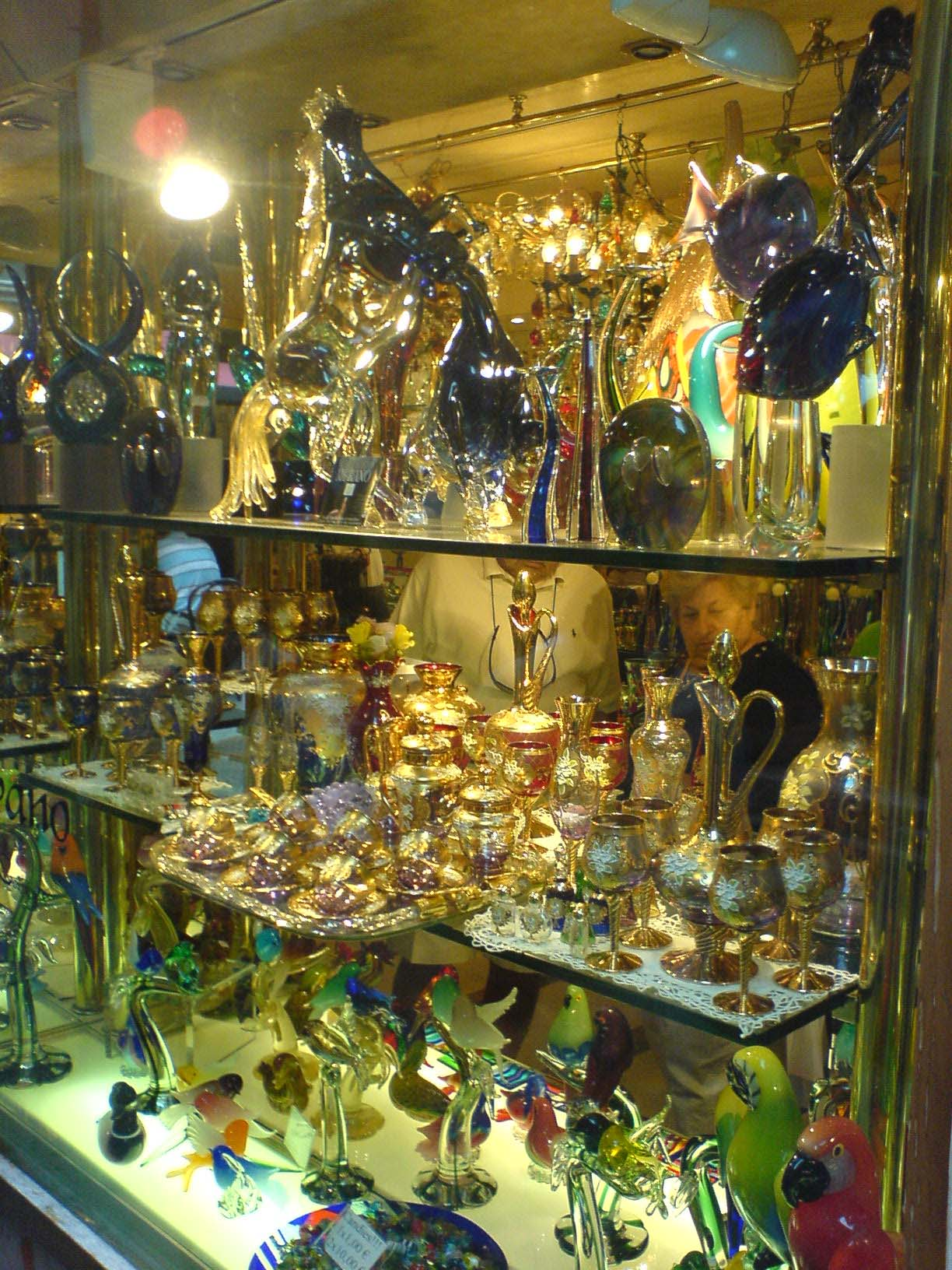 Photograph taken by Tarik Ajanovic (user Eborg) in Venice on 2nd October 2006.